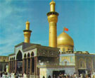 Imam Hussain (AS) Shrine at Karbala, Iraq. Taken By Zaidi Waqas in November 2004 and released to the public domain.